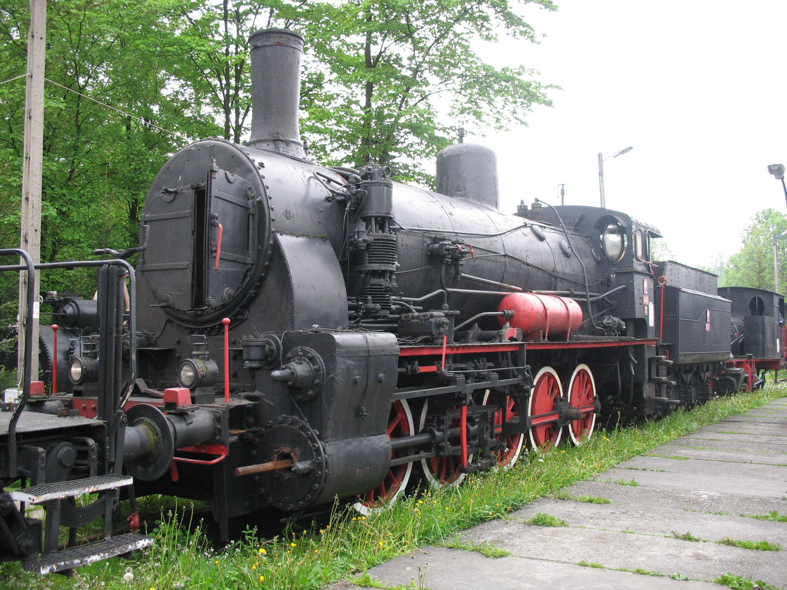 Polish Tw12-12 locomotive (BBÖ 80 class) in Chabówka Railway Museum.